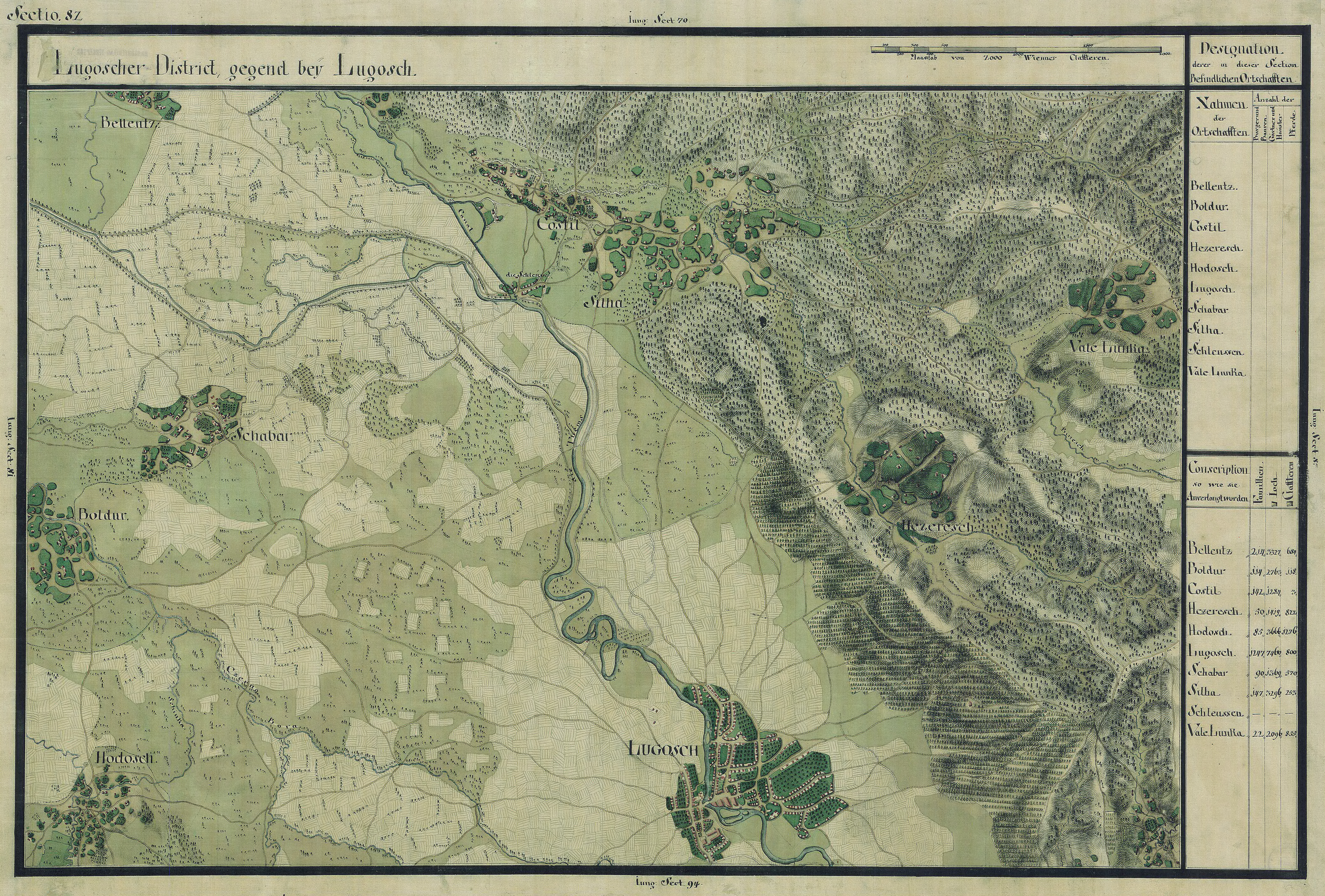 The Banat region in the cadastral maps: Josephinische Landesaufnahme, 1769-72. Josephinische Landaufnahme pg082